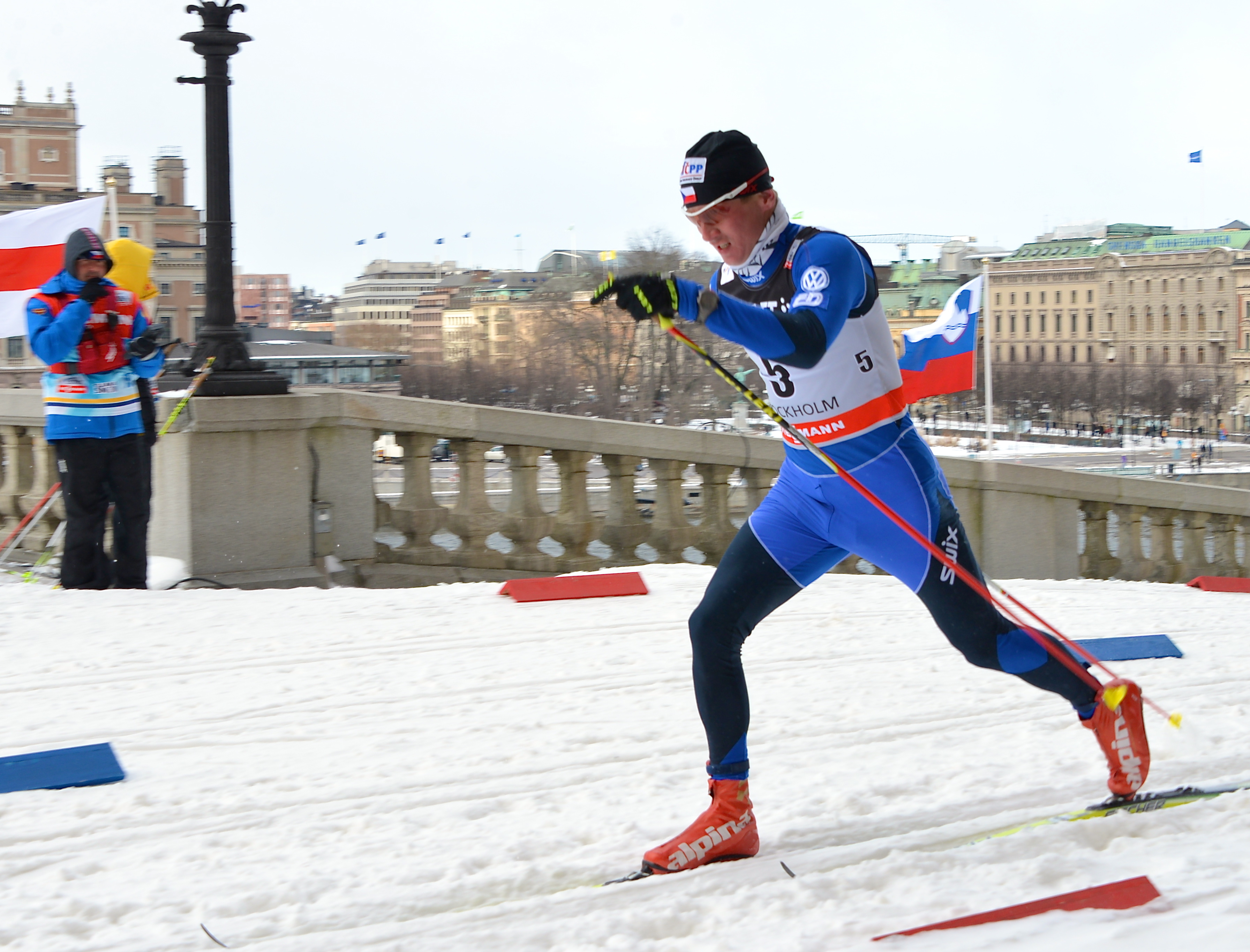 Lukas Bauer at Royal Palace Sprint in Stockholm March 20, 2013